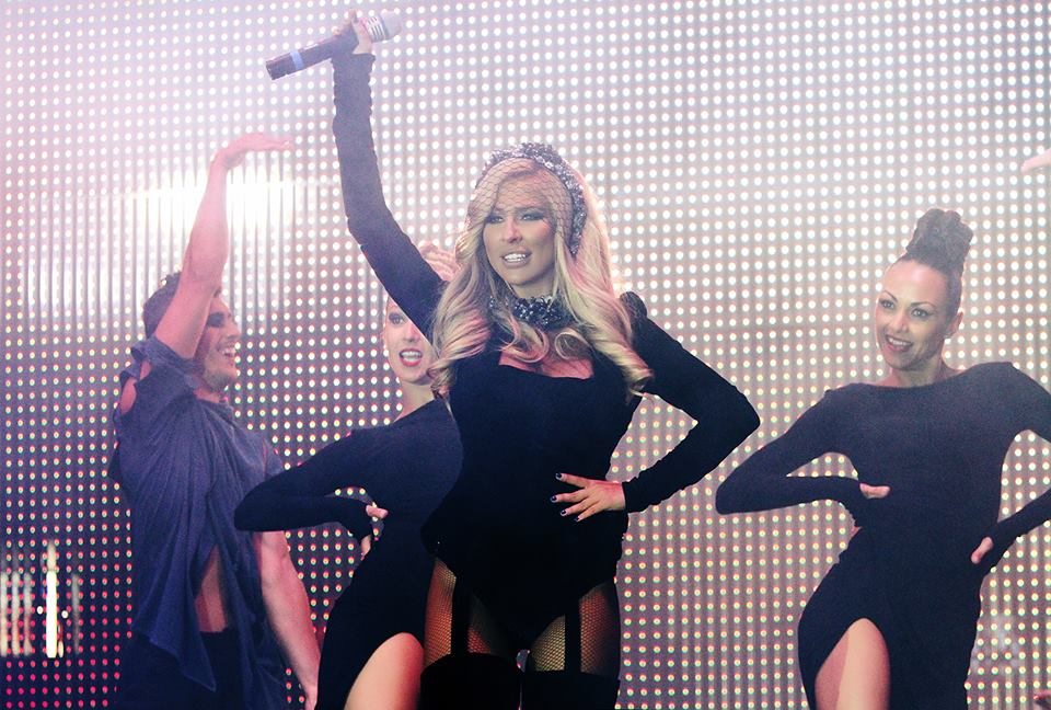 Andrea made a great performance at the Planeta Summer Tour 2014 with her own dance group.The show was amazing .